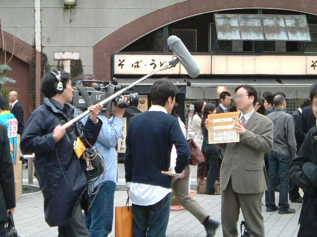 A businessman giving an interview on the promenade of Shinbashi Station.